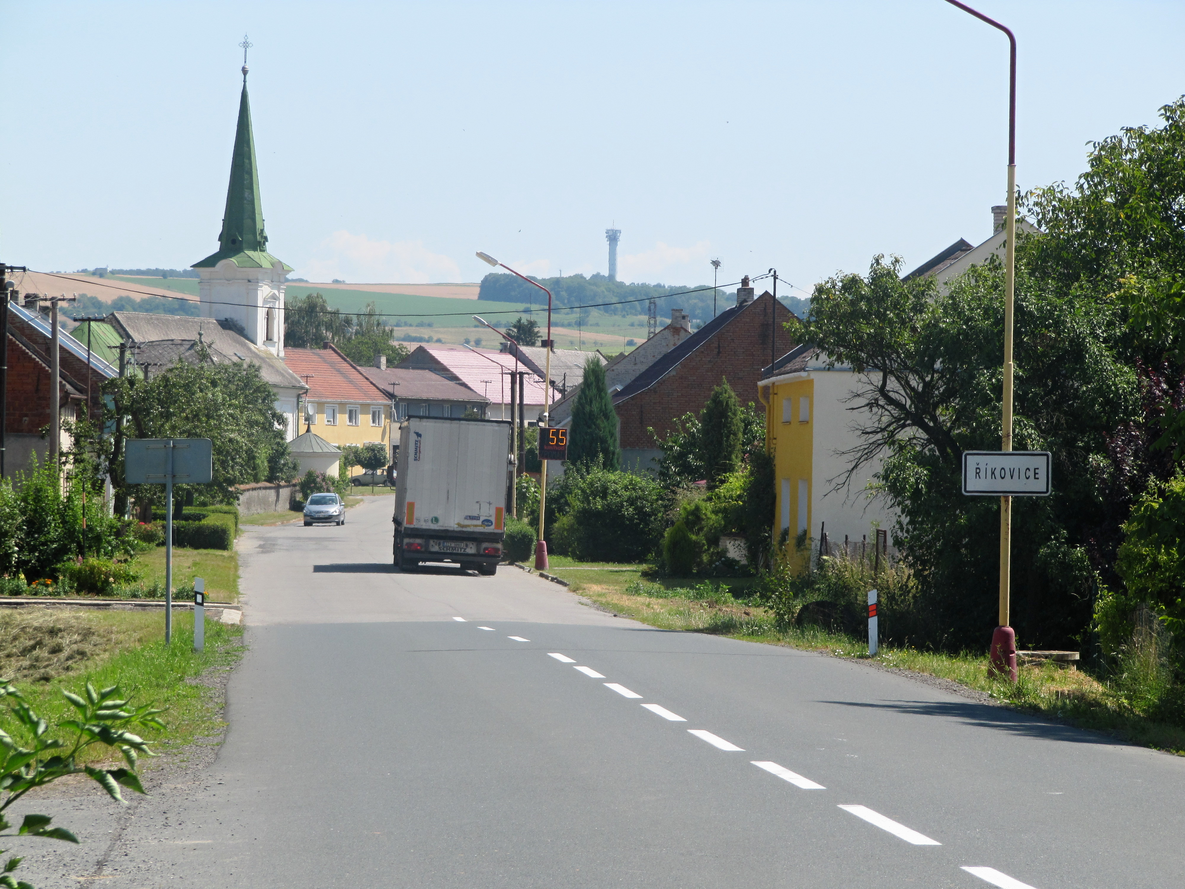 Říkovice, Přerov District, Czech Republic.